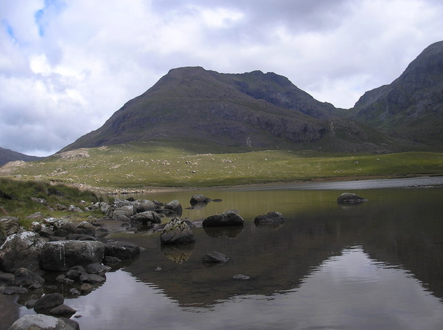 Loch Fiachanis, in central Rùm, Scotland. The hill is called Trollabhal and is 702 metres high.